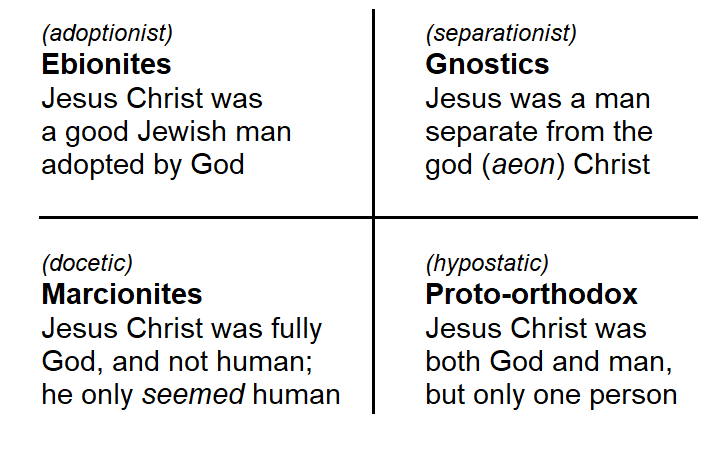 New Testament scholar Bart D. Ehrman's model of early Christian sects' core beliefs about Jesus (in English).